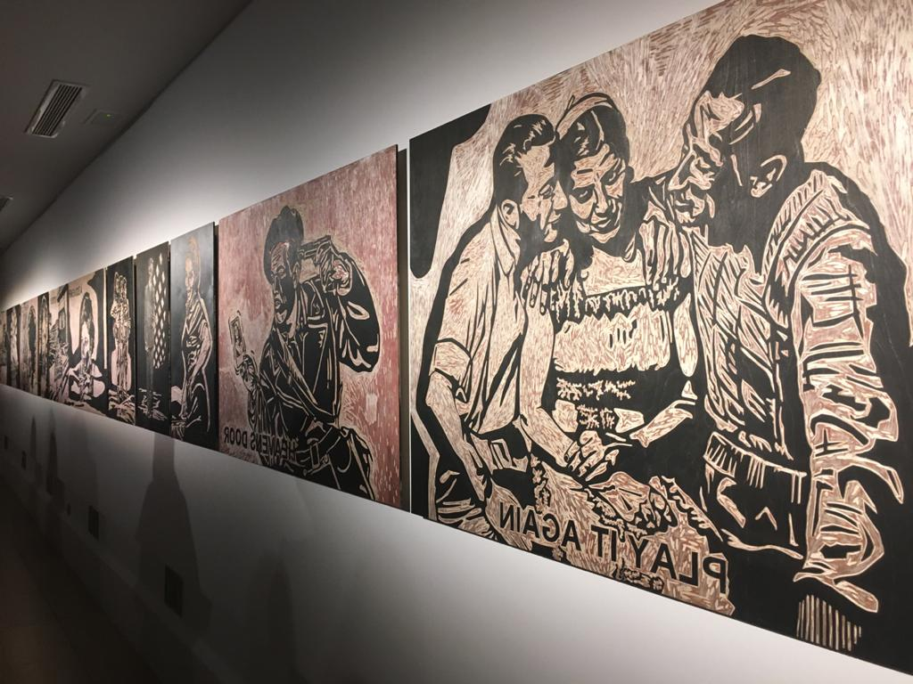 Exposition of "Gods of the Frontier" in Casa Arabe, Madrid. February, 2020.